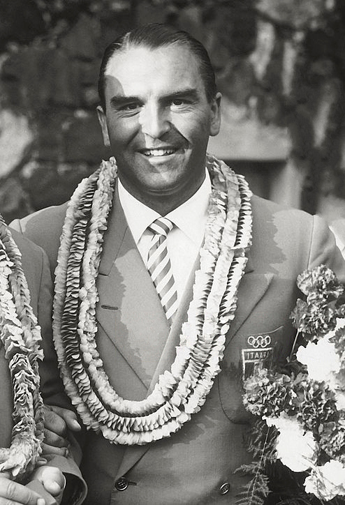 Italian sailors Agostino Straulino and Nicolò Rode after having won a gold medal at the 15th Olympic Games. Helsinki, July 1952